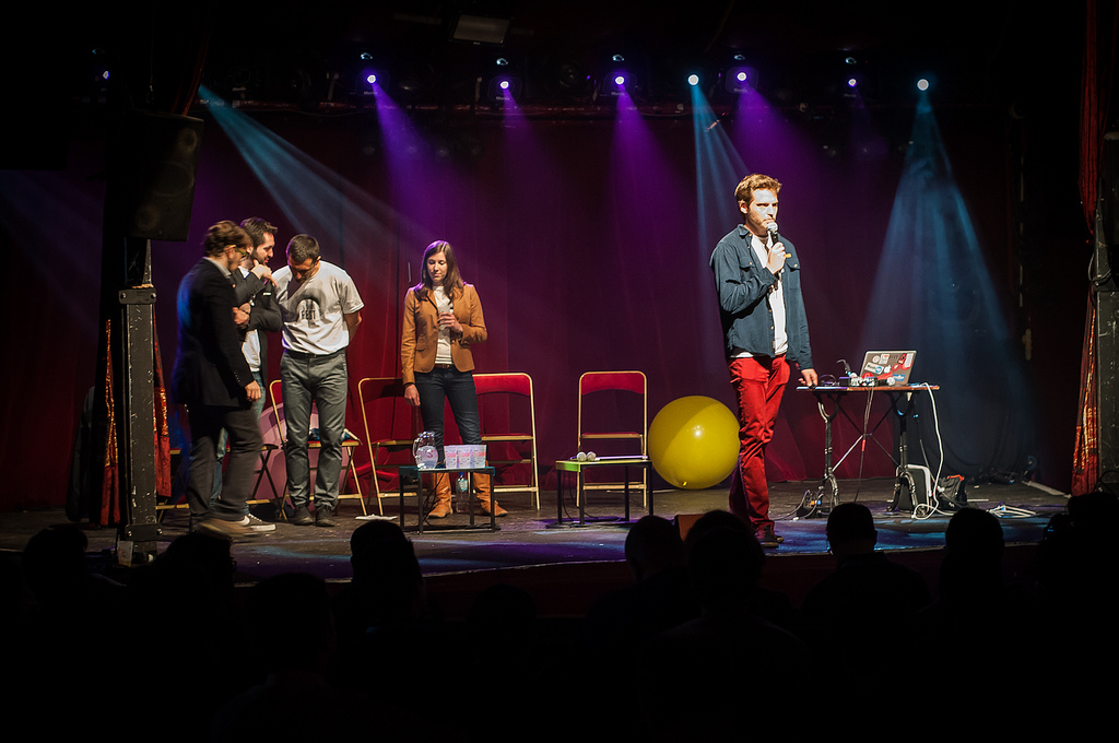 Antonin Léonard inaugurating the OuiShareFest in 2013Occitan : Antonin Léonard durant l'inauguracion de la OuiShareFest en 2013